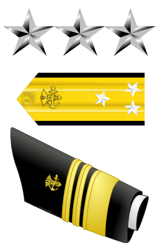 United States Public Health Service Vice Admiral insignia